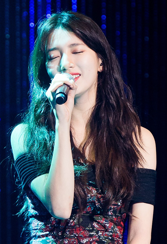 Suzy performing live, 25 January 2017